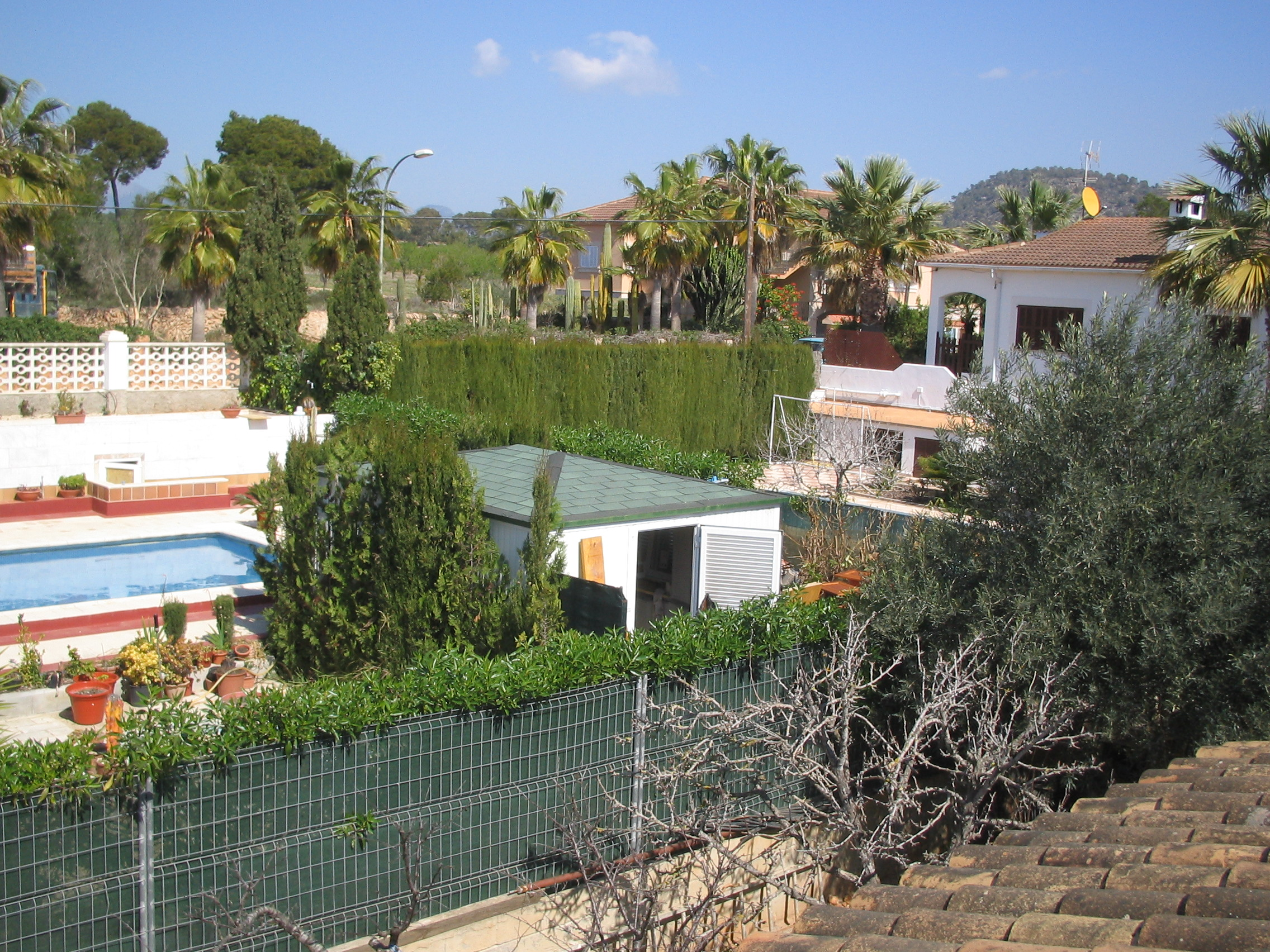 Residential area of a town called Son Ferrer in Calviá, Mallorca.